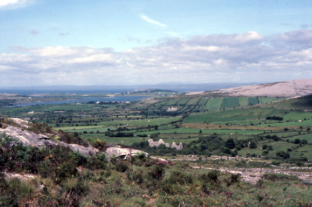 Oughtmama and Bell Harbour. The Ucht Mama churches are in the centre foreground; Corcomroe Abbey on the other side of the valley.